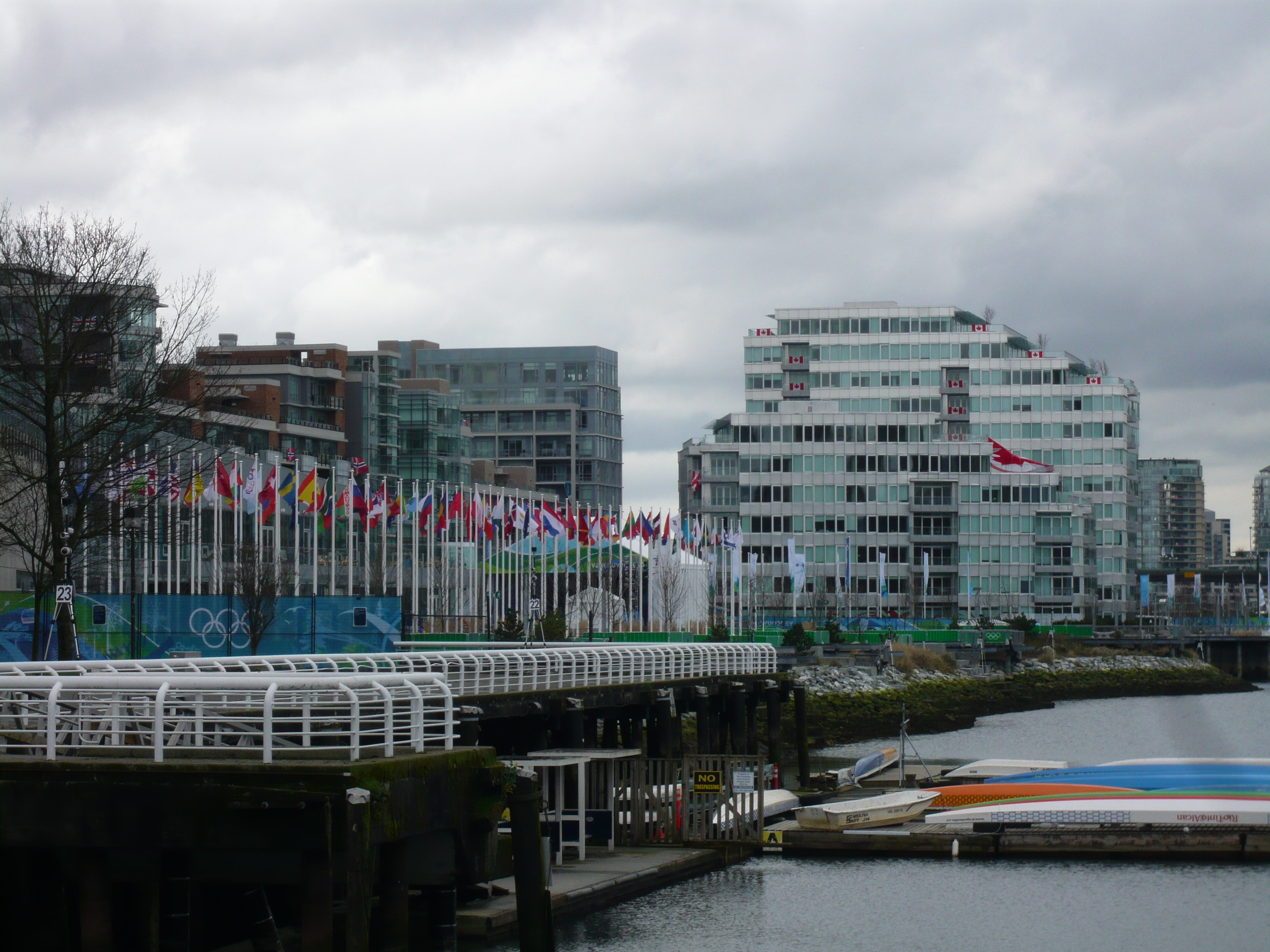 Olympic Village of Vancouver 2010